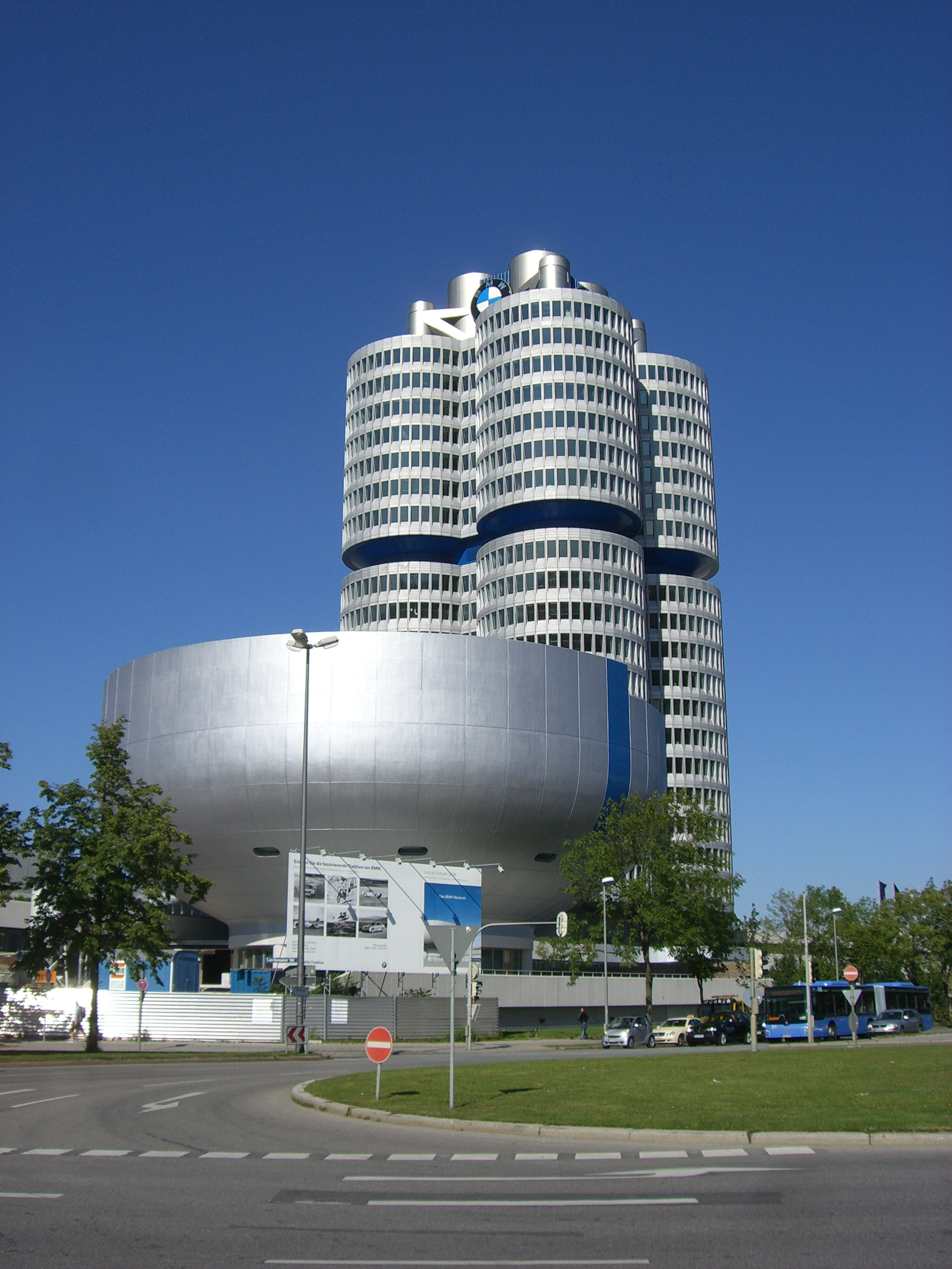 BMW headquarter with the BMW museum under construction